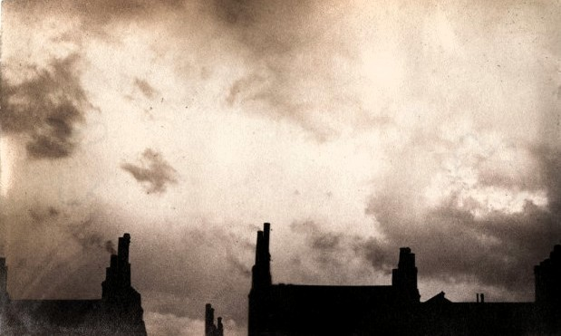 Ralph Abercromby Raggy, Inky Cloud London, 1884 Gelatin-silver print